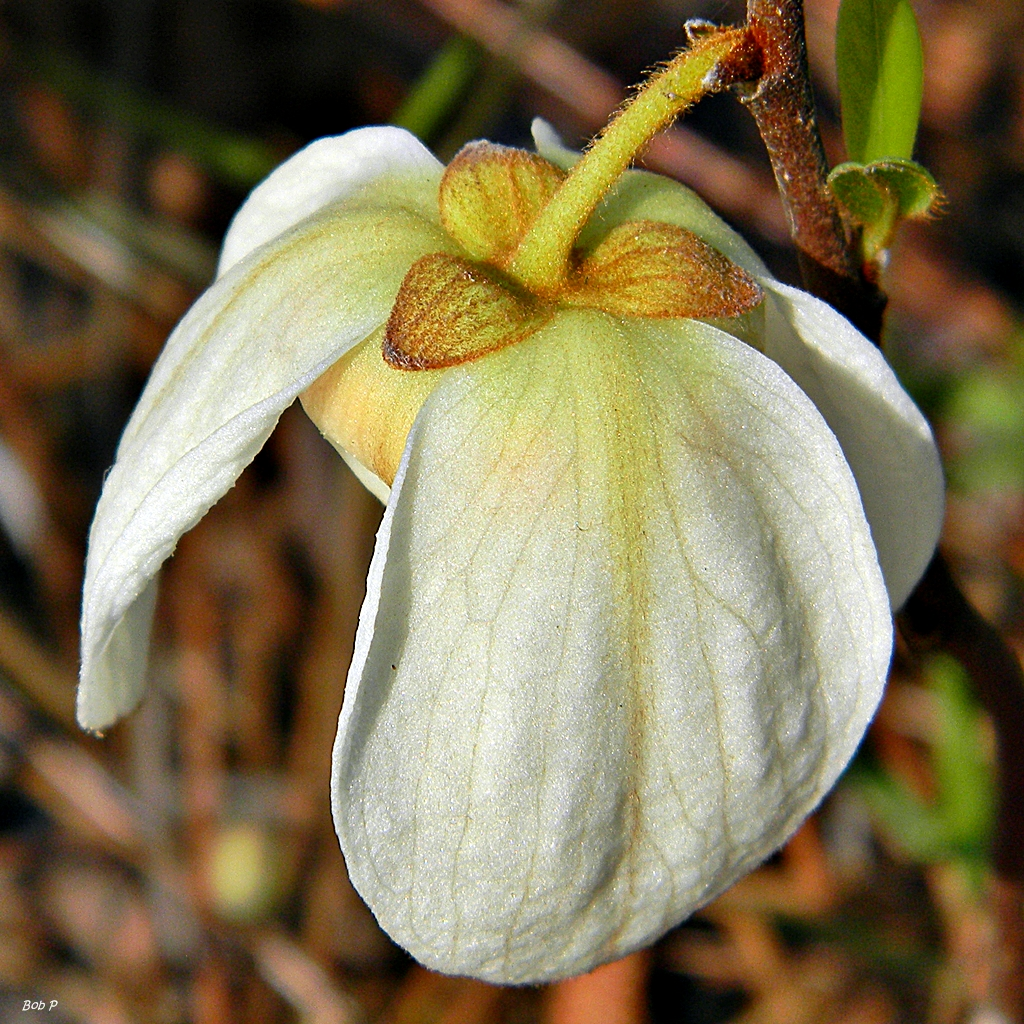 A single blossom on a small, young plant at Frenchman's Forest. This native pawpaw is a primary food source for larvae of the beautiful zebra swallowtail butterfly. It is also known as flag pawpaw and flatwoods pawpaw.